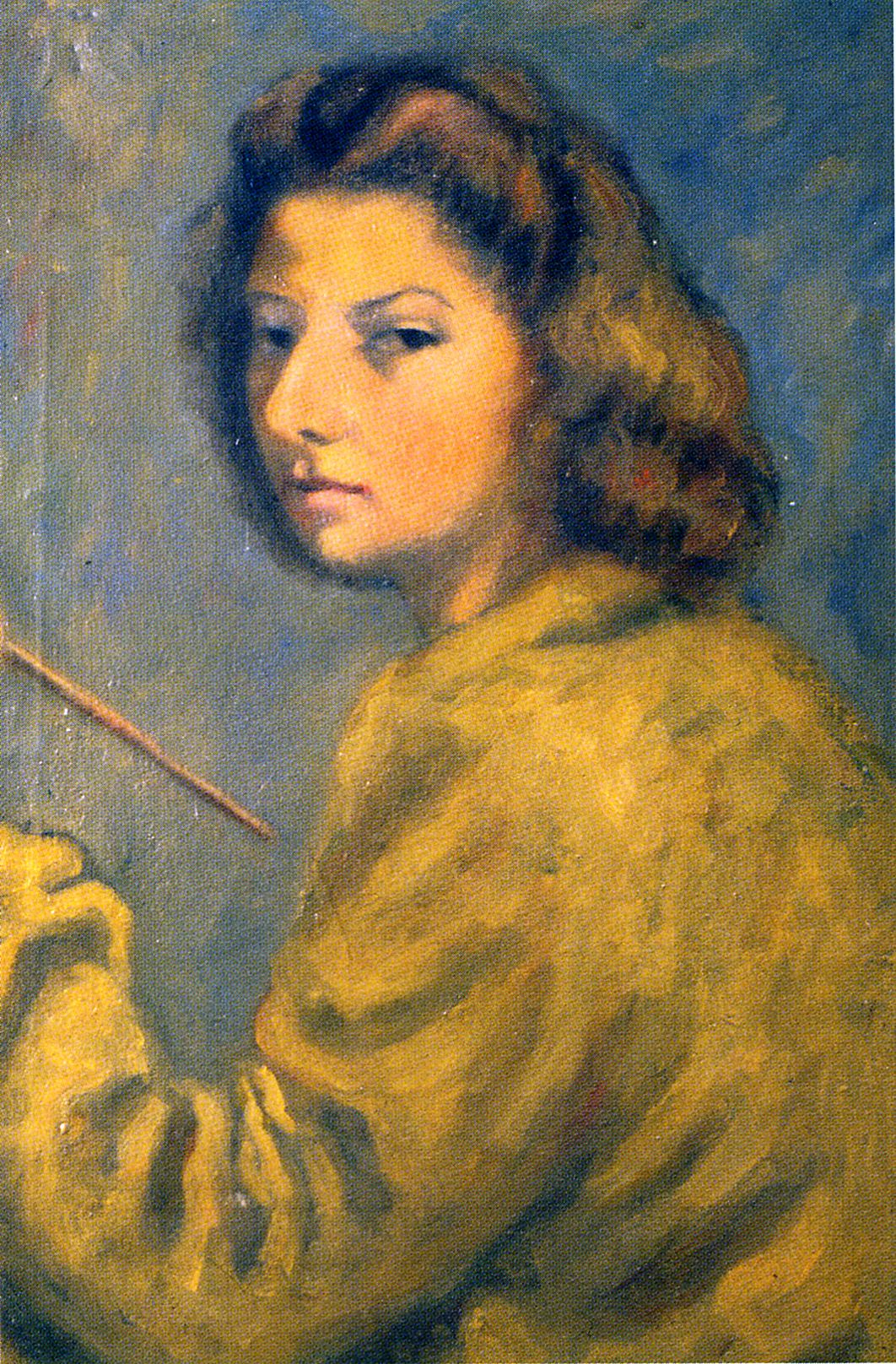 self-portrait